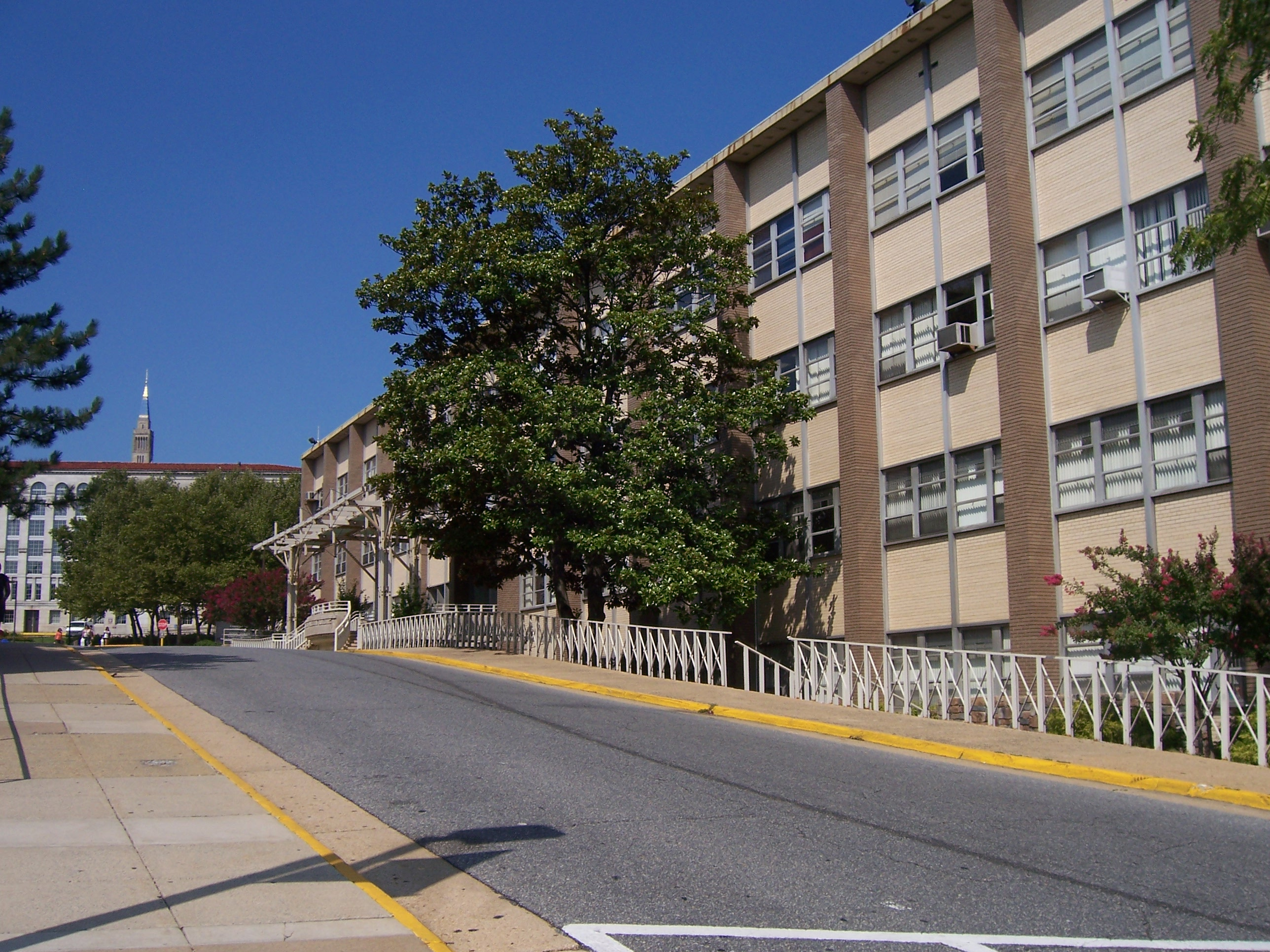 Pangborn Hall, Catholic University of America (Washington, D.C.)